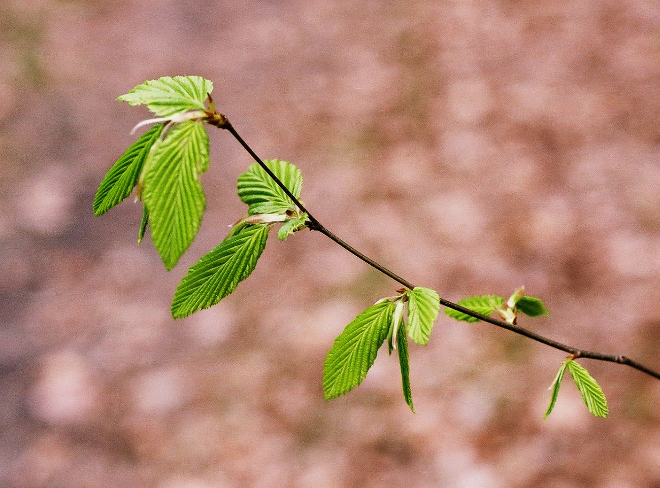 Carpinus betulus leaves in the spring Michał Gleń